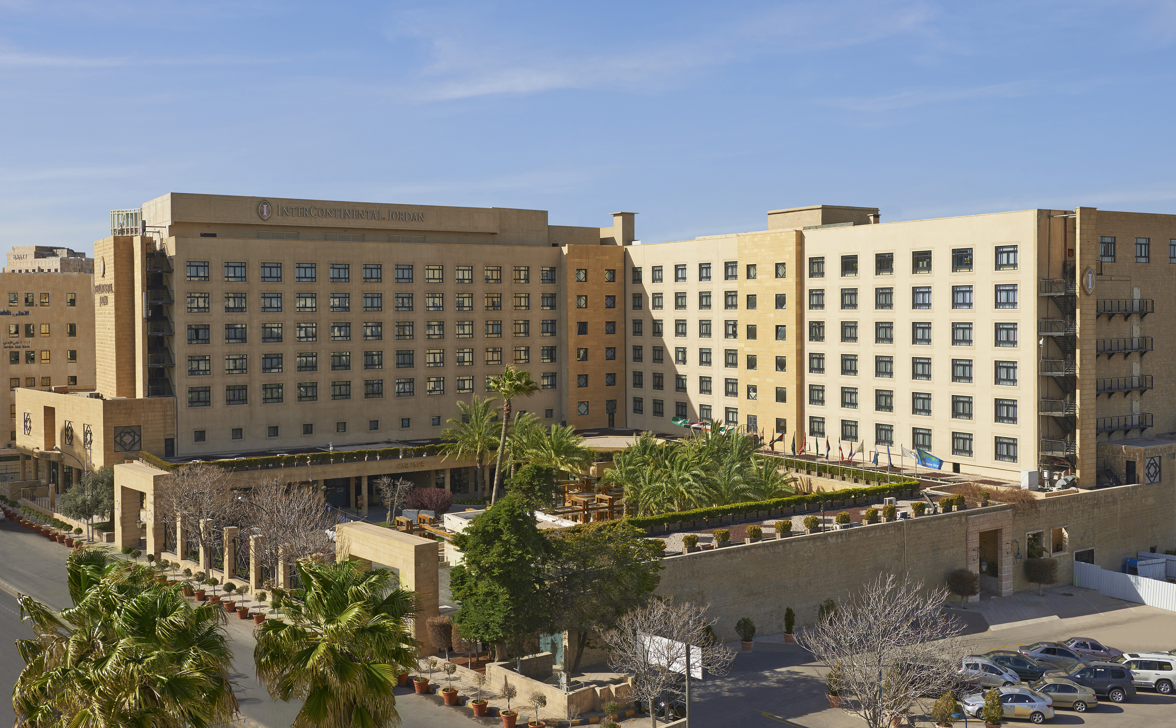 Jordan Intercontinental Hotem